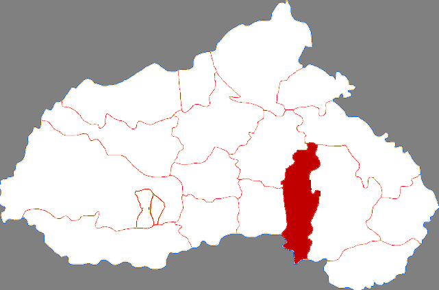 Location of Guangzong county in Xingtai City, China